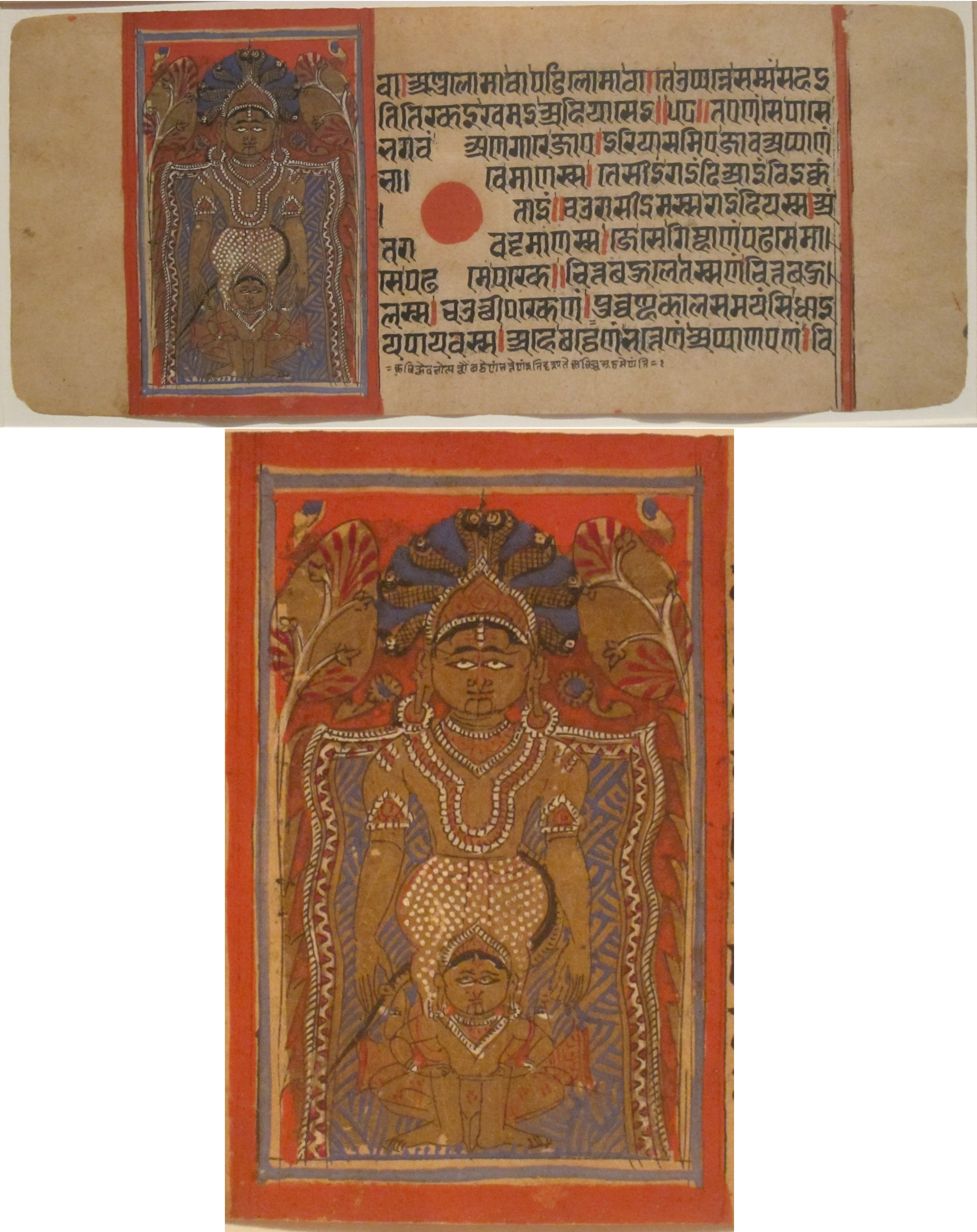 Jain manuscript page with Parshvanatha beneath the cobra canopy, western India, c. 1500-1600, gouache on paper, Honolulu Academy of Arts